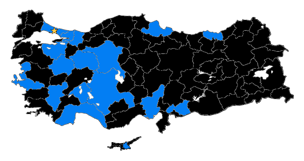 AIESEC Türkiye İller Haritası 2020